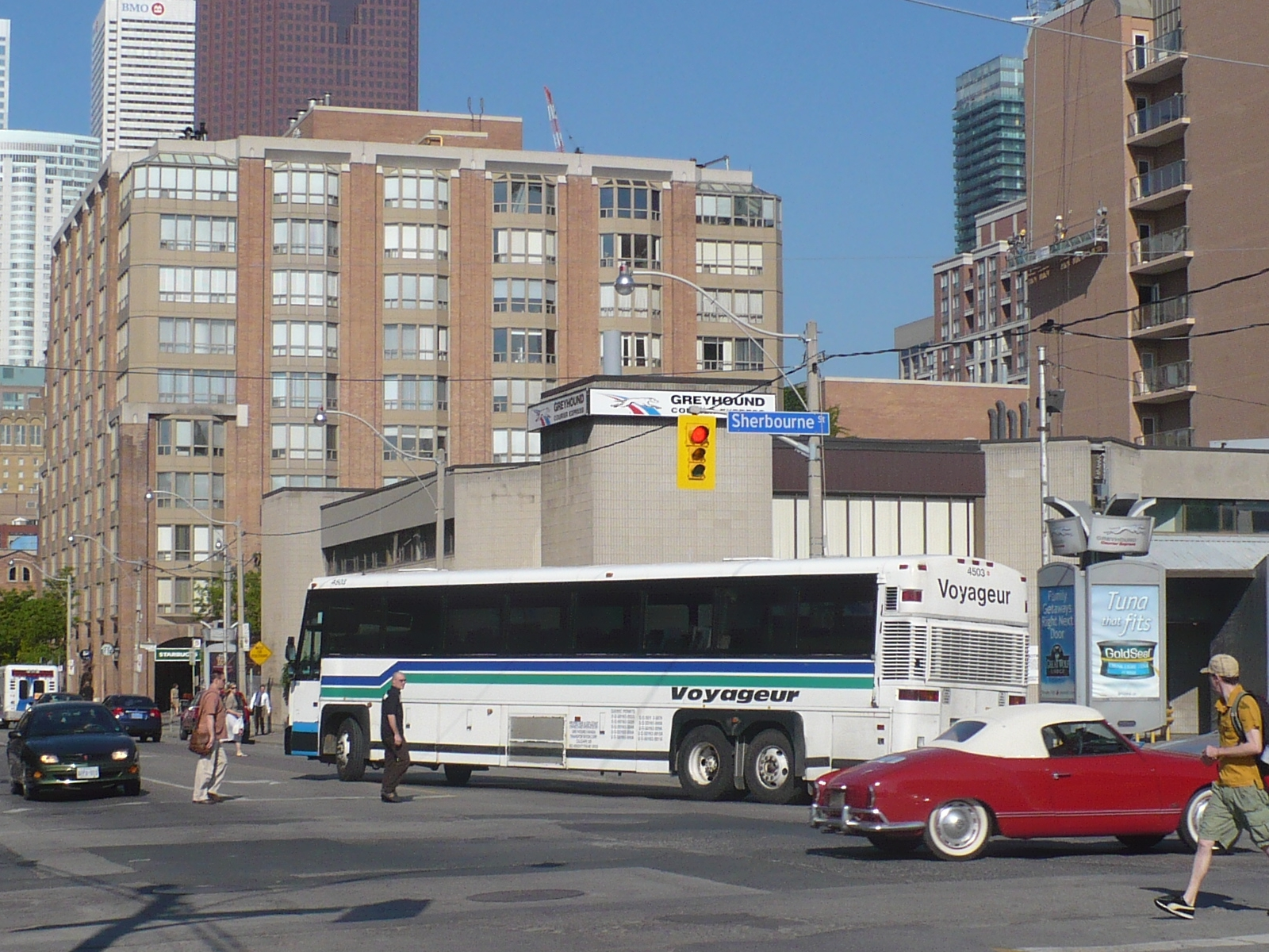 Voyageur bus #4503 leaving the Greyhound Express depot in Toronto